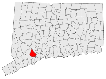 Locator map of Shelton